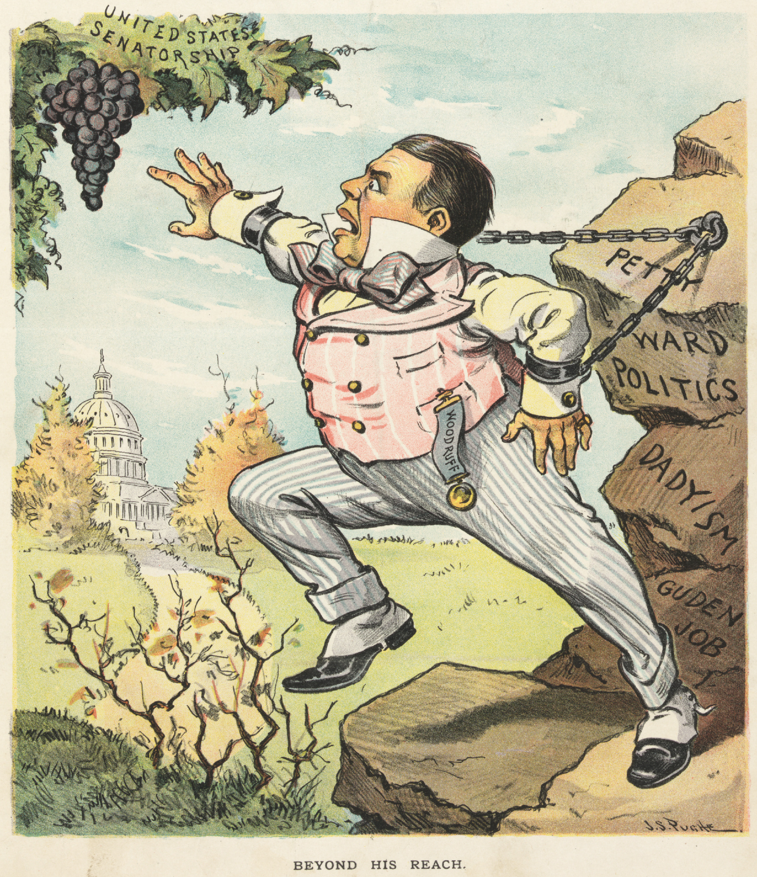 "Beyond His Reach," by John S. Pughe (1870-1909). Puck magazine cover cartoon, Oct. 15, 1902. Digitized by the Library of Congress; online at Title: Beyond his reach / J.S. Pughe. Creator(s): Pughe, J. S. (John S.), 1870-1909, artist Date Created/Published: N.Y. : J. Ottmann Lith. Co., Puck Bldg., 1902 October 15. Medium: 1 print : chromolithograph. Summary: Illustration shows Timothy L. Woodruff chained from behind to rocks labeled "Petty Ward Politics, Dadyism, [and] Guden Job" making it impossible for him to reach a bunch of grapes on a vine labeled "United States Senatorship" hanging just beyond his grasp; the U.S. Capitol is in the background. Reproduction Number: LC-DIG-ppmsca-25679 (digital file from original print) Rights Advisory: No known restrictions on publication. Call Number: Illus. in AP101.P7 1902 (Case X) [P&P] Repository: Library of Congress Prints and Photographs Division Washington, D.C. 20540 USA Minor additional digital editing by Tim Davenport ("Carrite") for Wikipedia, no copyright claimed, released to the public domain without restriction.